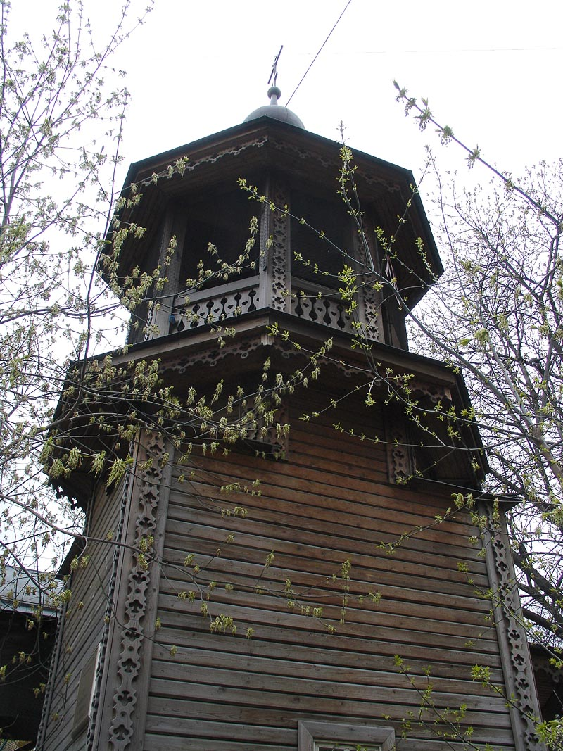 Temporary wooden belltower of Сhurch of Saviour Transfiguration in Bolvanovka; Moscow, Zamoskvorechye District. Main church, built in 1755